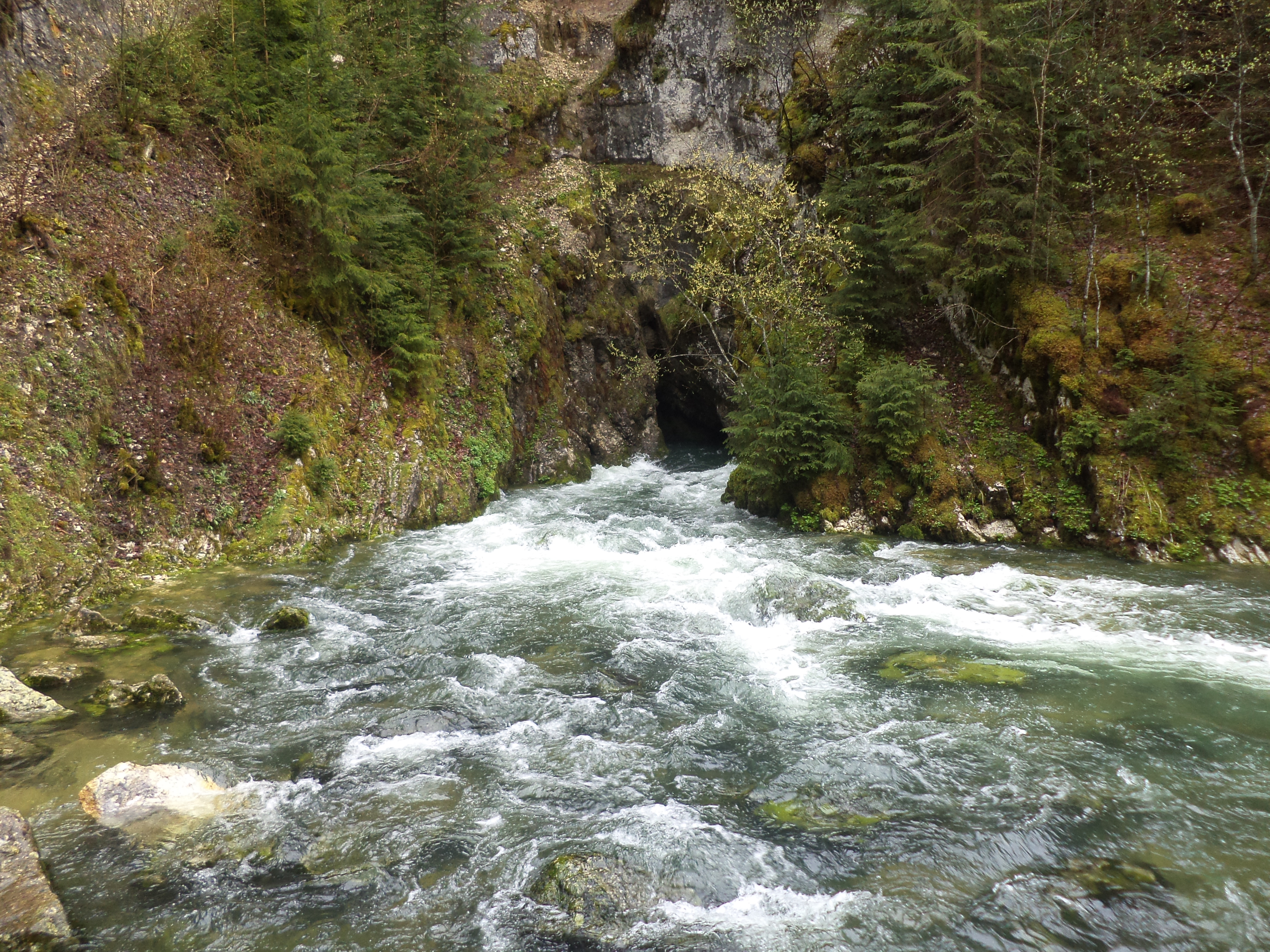 The source of the river Doubs in the French Jura